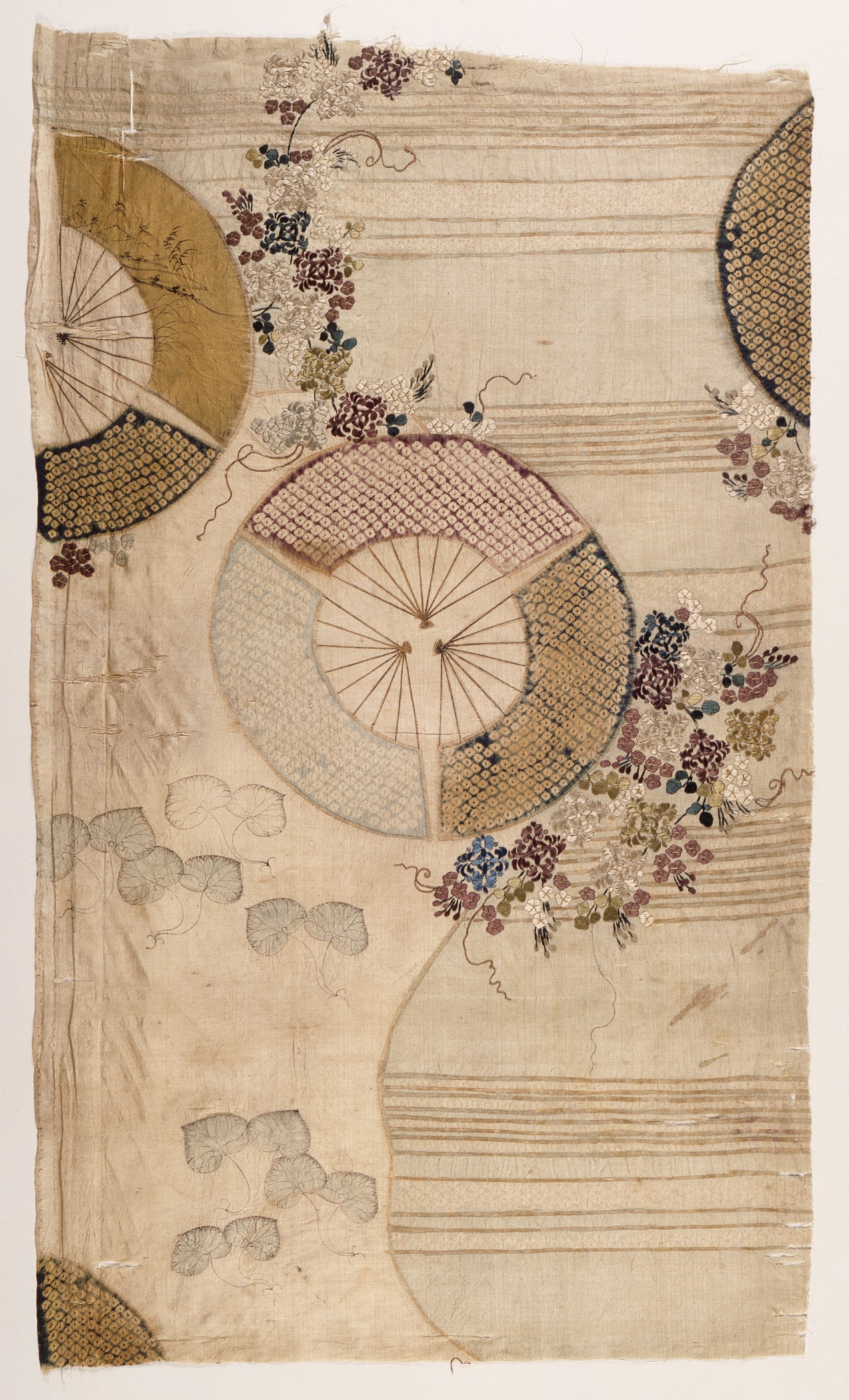 Japan, Momoyama period (1568-1615), late 16th-early 17th century Costumes; principal attire (entire body) Tsujigahana style; tie-dyeing (kanoko shibori), silk thread embroidery, ink painting (kaki-e), and gold leaf (surihaku) on white plain-weave silk (nerinuki) Gift of Miss Bella Mabury (M.39.2.304) Costume and Textiles